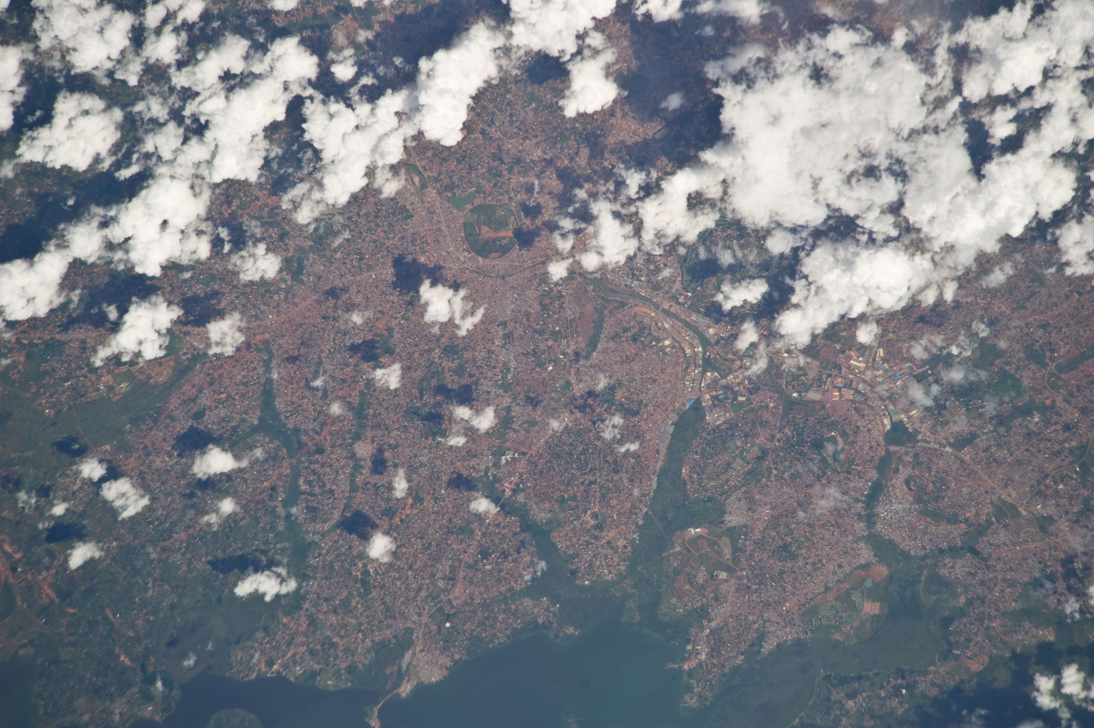 Astronaut Photo of Kampala, Uganda taken from the International Space Station (ISS) during Expedition 23 on May 14, 2010.